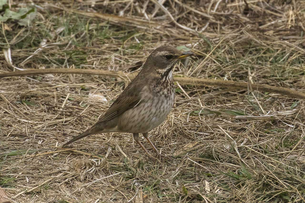 Black-throated Thrush - Eaglenest - IndiaFJ0A1244